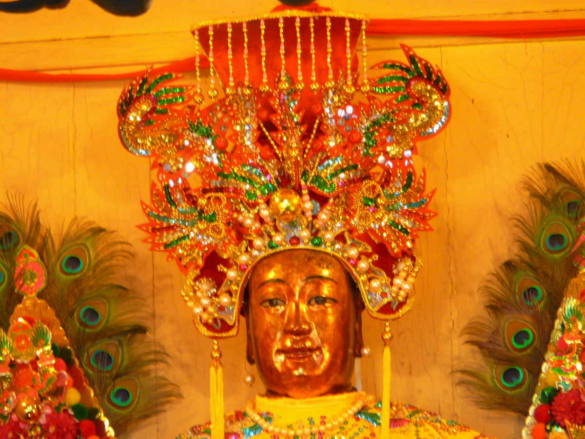 This is the primary image of the goddess Thien Hau at Thien Hau Temple, Nguyen Trai Street, Cho Lon, Ho Chi Minh City.